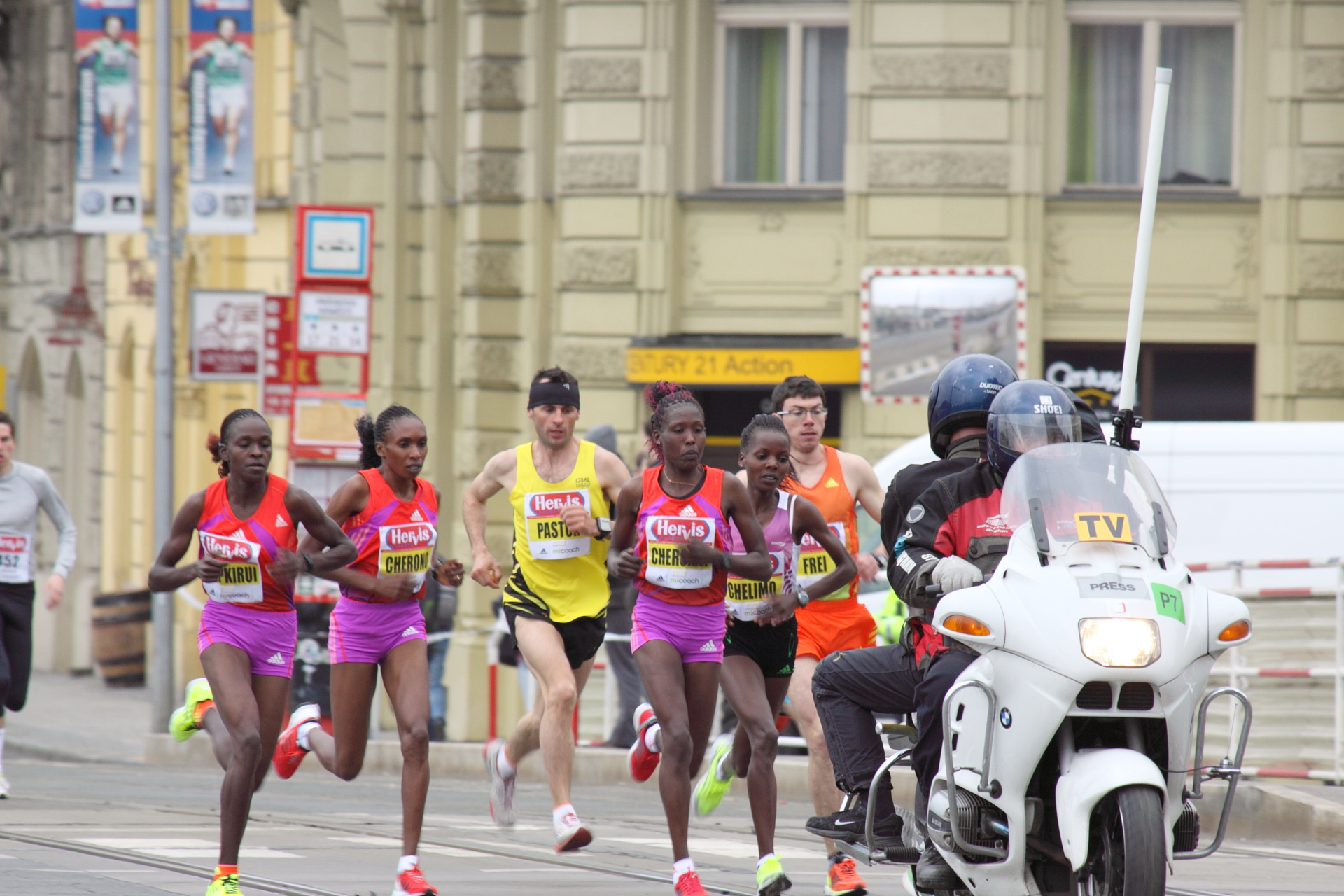 Leading women at ~1.6 km during Hervis Prague Half Marathon 2012 #F3 Joyce Chepkirui KEN 01:07:02 #F4 Gladys Cherono KEN 01:08:17 #F1 Lydia Cheromei KEN 01:07:25 #F5 Rose Chelimo KEN 01:11:35 + #20 Imrich Pastor SVK 01:13:27 #19 Martin Frei CZK 01:10:32